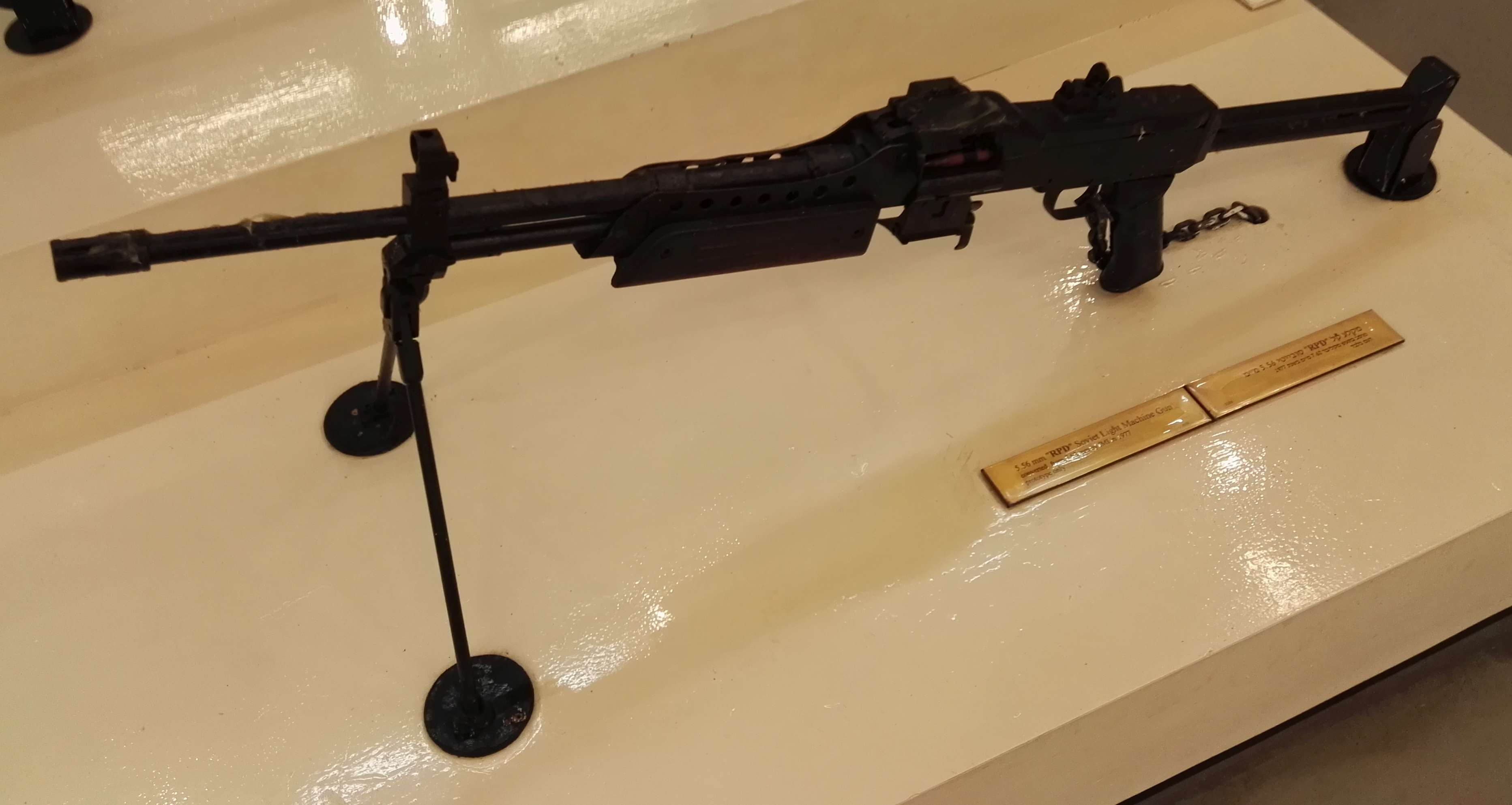 Batey ha-Osef Museum, Tel Aviv, Israel.